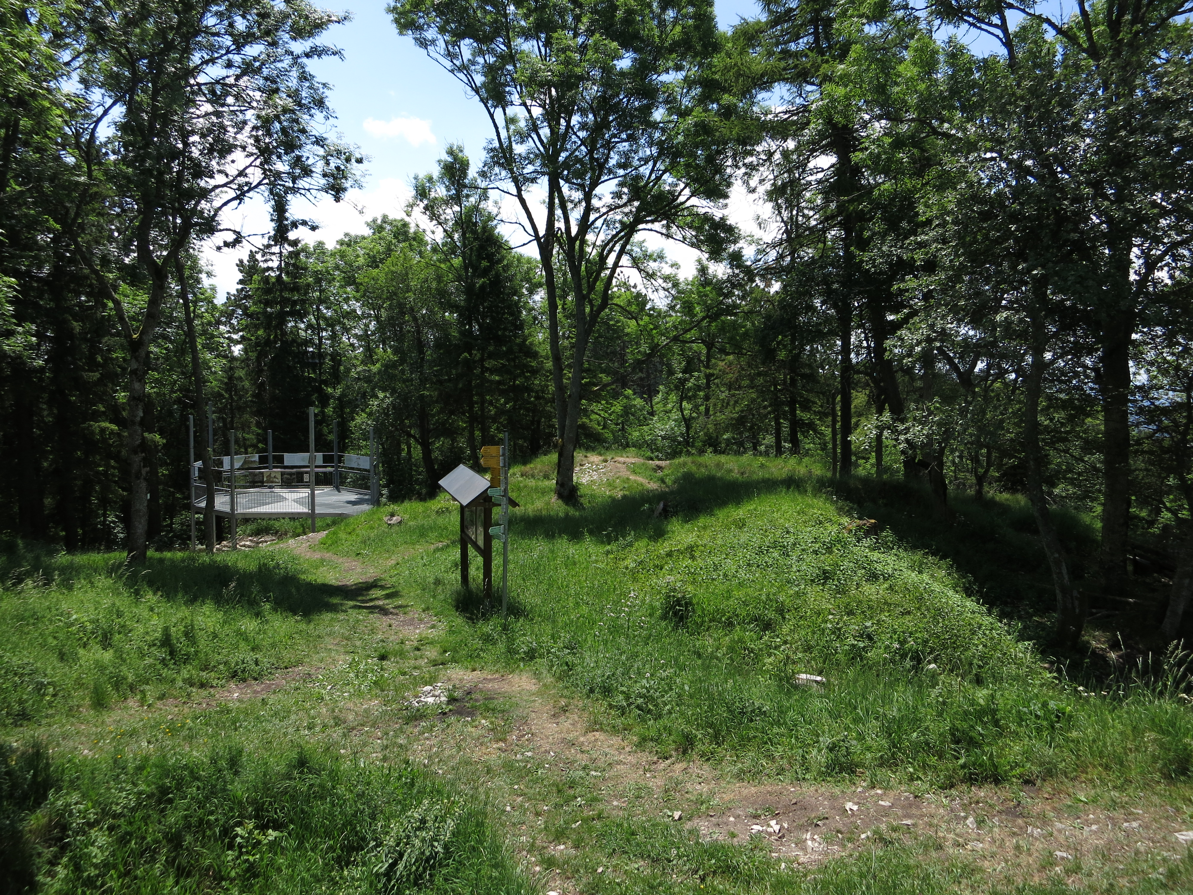 On top of Oberhohenberg, Schwaebische Alb